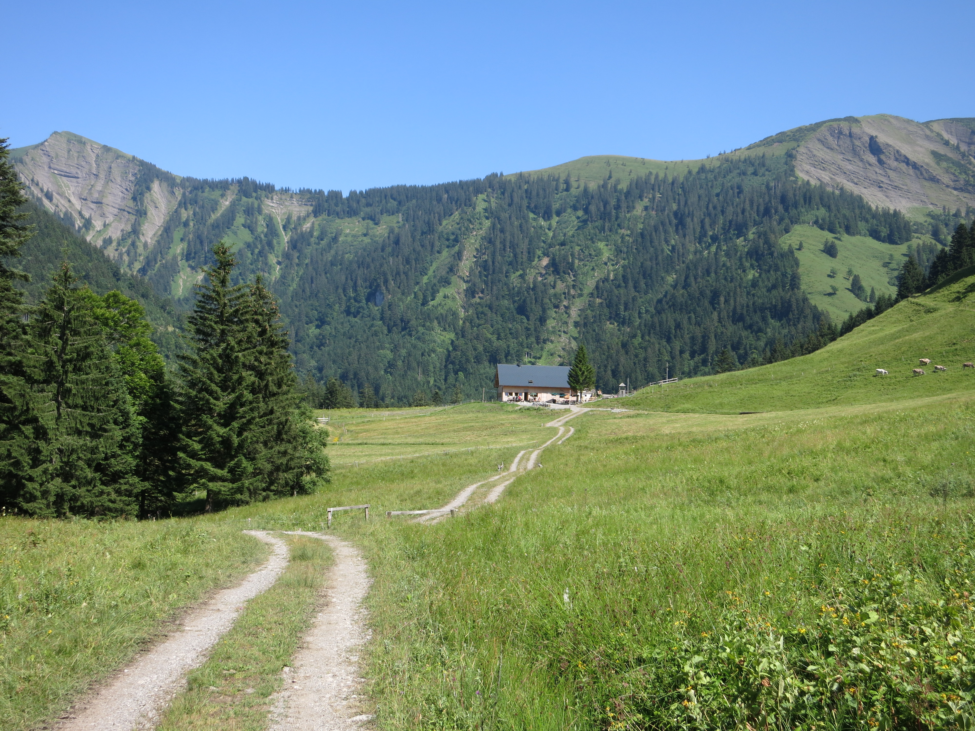 Farm Sattelalpe near Ebnit, Austria